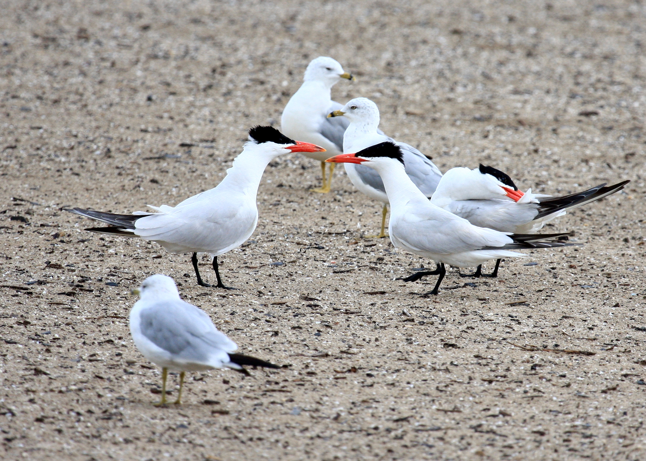 Hydroprogne caspia (red bills) and Larus delawarensis (yellow bills), Dunkirk, New York, 42°29'32"N 79°19'47"W.